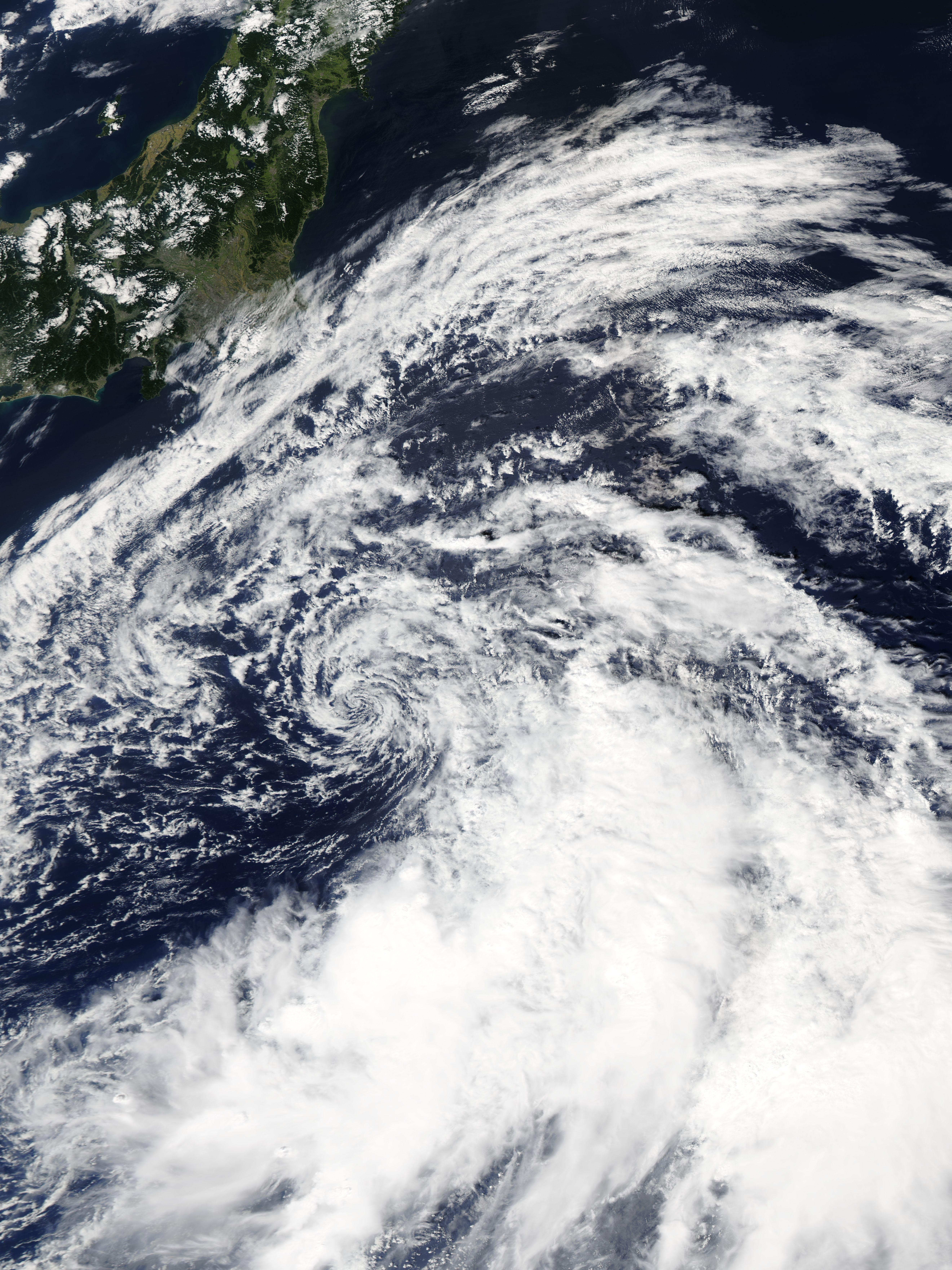 JMA Tropical Depression 32 weakening off Japan on September 15, 2019